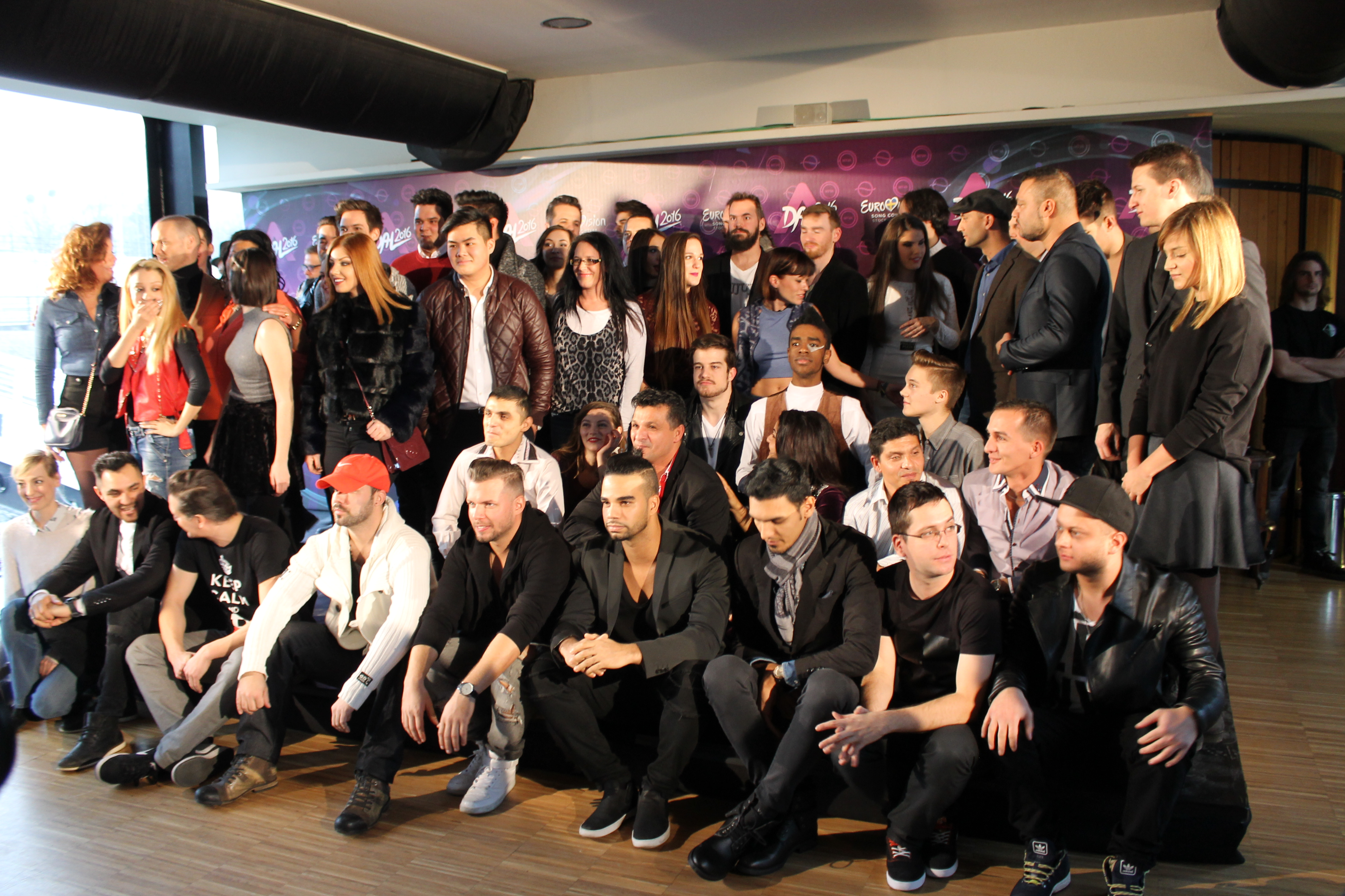 A Dal 2016 participants: the best 30